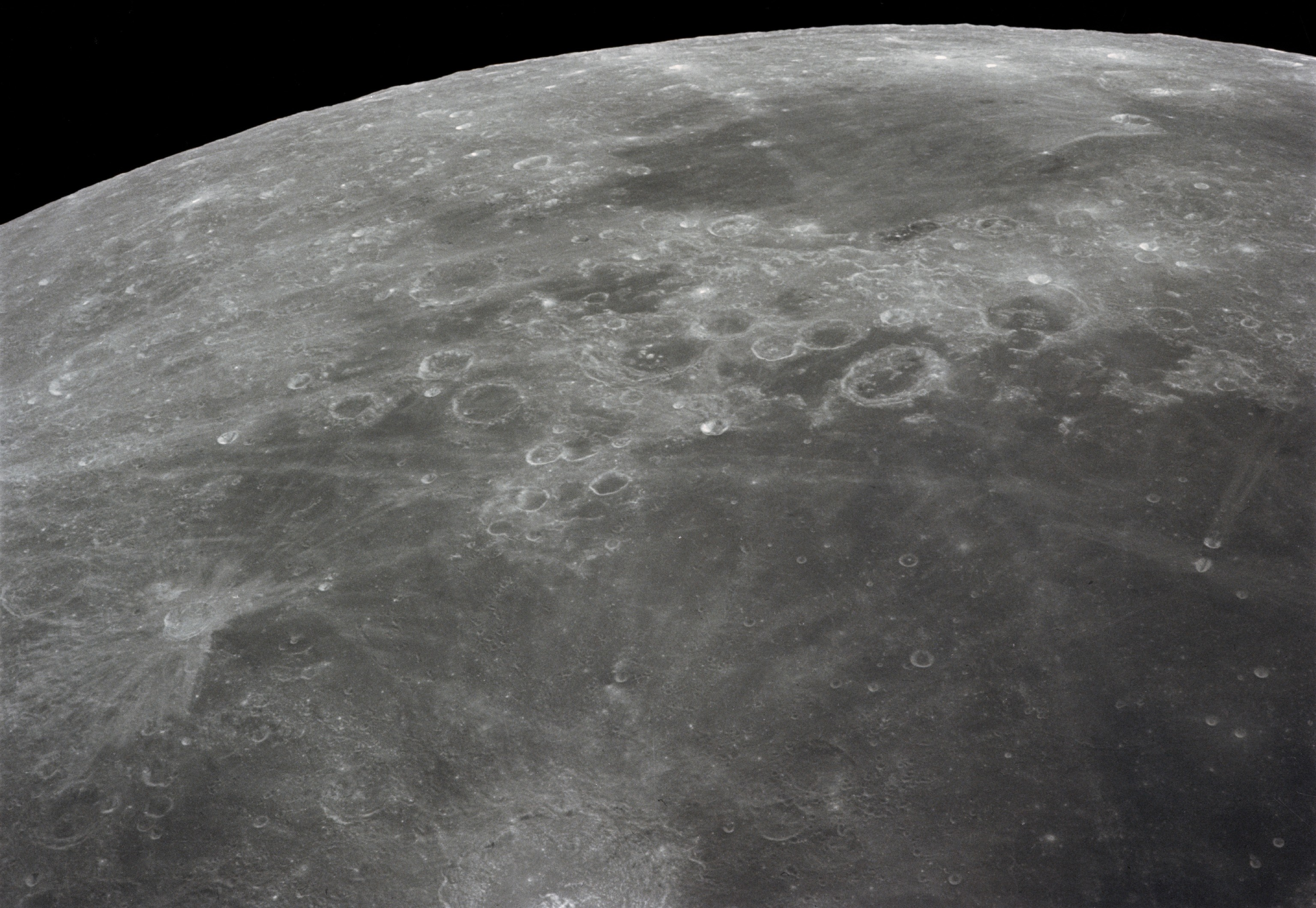 This 70mm handheld camera's view of the moon, photographed during the Apollo 16 mission's trans-Earth coast, features Mare Fecunditatis (Sea of Fertility) in the foreground with the twin craters Messier at the lower right. Nearer the horizon is Mare Nectaris (Sea of Nectar) with craters Goclenius and Gutenberg in between. Goclenius is located at approximately 10 degrees south latitude and 45 degrees east longitude.